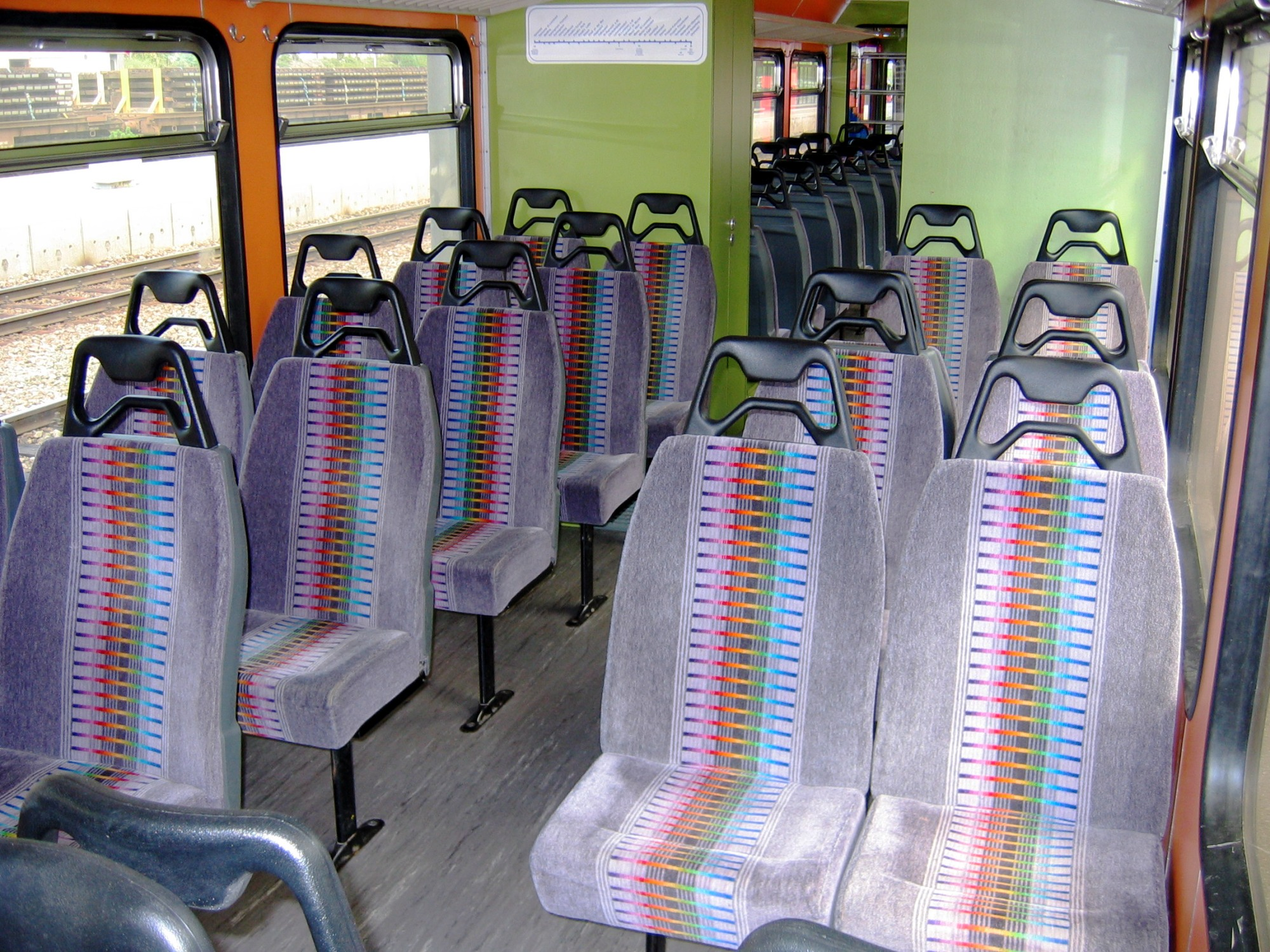 Interior of an StLB VT railcar